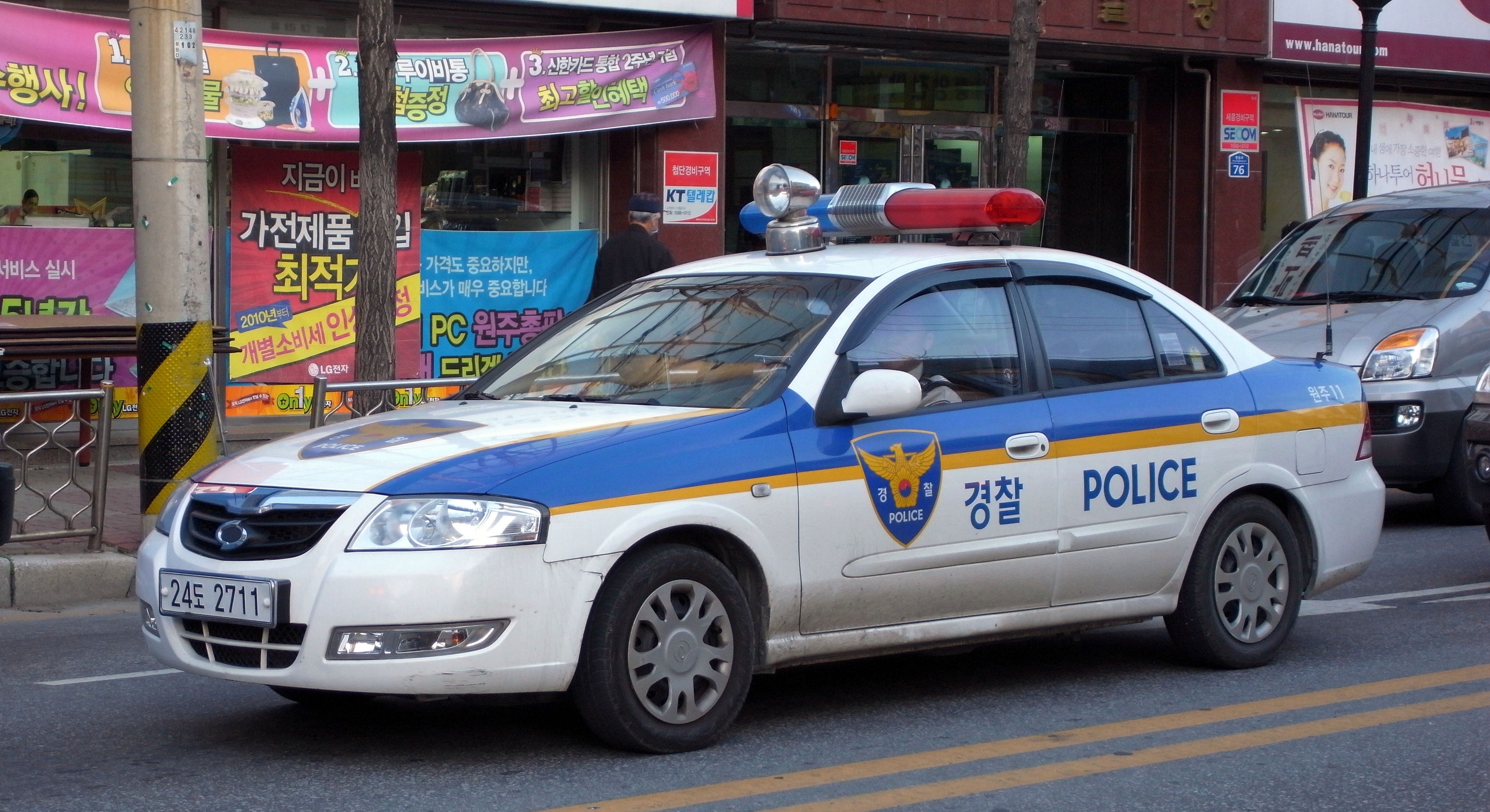 A police car in Wonju, South Korea